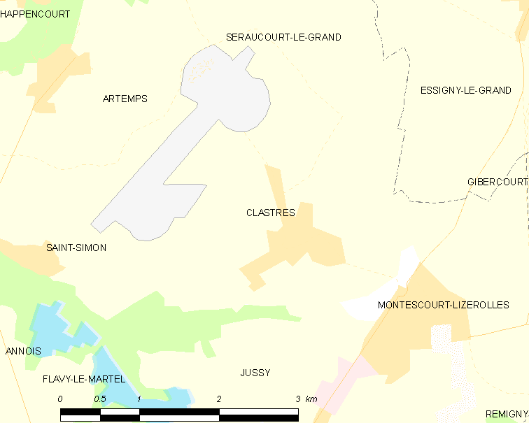 Map of French commune: Clastres Map commune FR insee code 02199.png